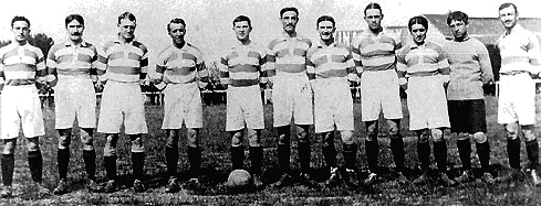 Equipe de l'olympique de Cette 1914.